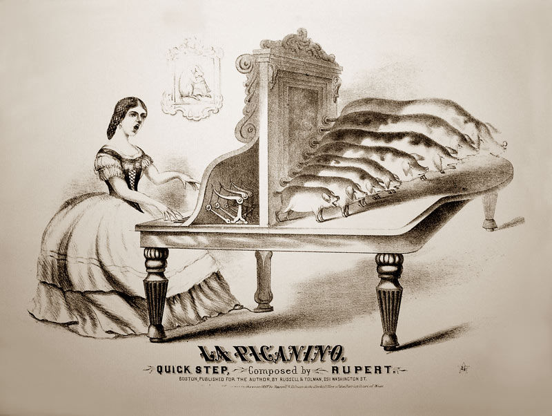 Cover illustration for the piece of sheet music “La Piganino”. Lithograph.